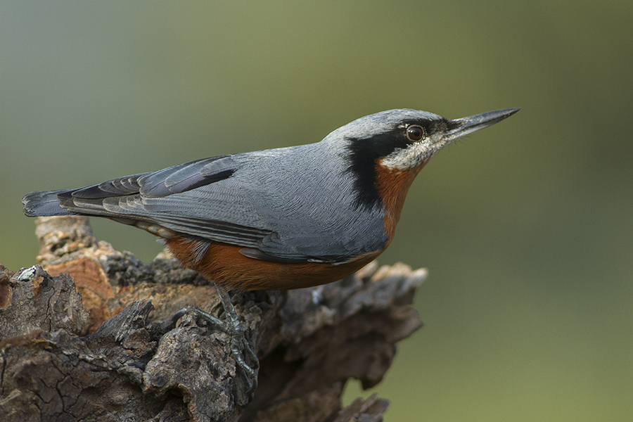 The specie Chestnut-bellied Nuthatch had been photographed at Ghatgarh, Uttarakhand, India on 03.12.2014. during the bird photography trip of GoingWild.